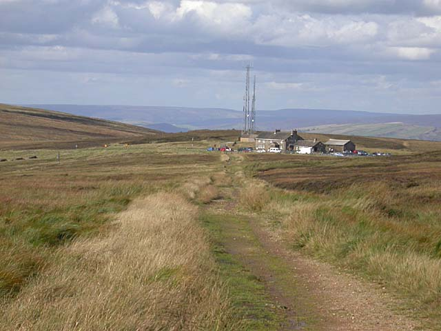 Cat and Fiddle. The Cat and Fiddle is one of Britain's highest pubs. It is situated on the A537 between Macclesfield and Buxton.